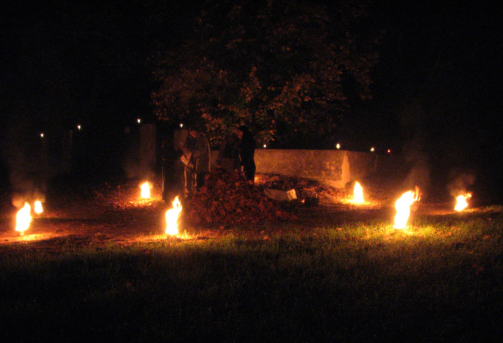 Dziady was an ancient Slavic feast to commemorate the dead - RKP (2008), Pęcice